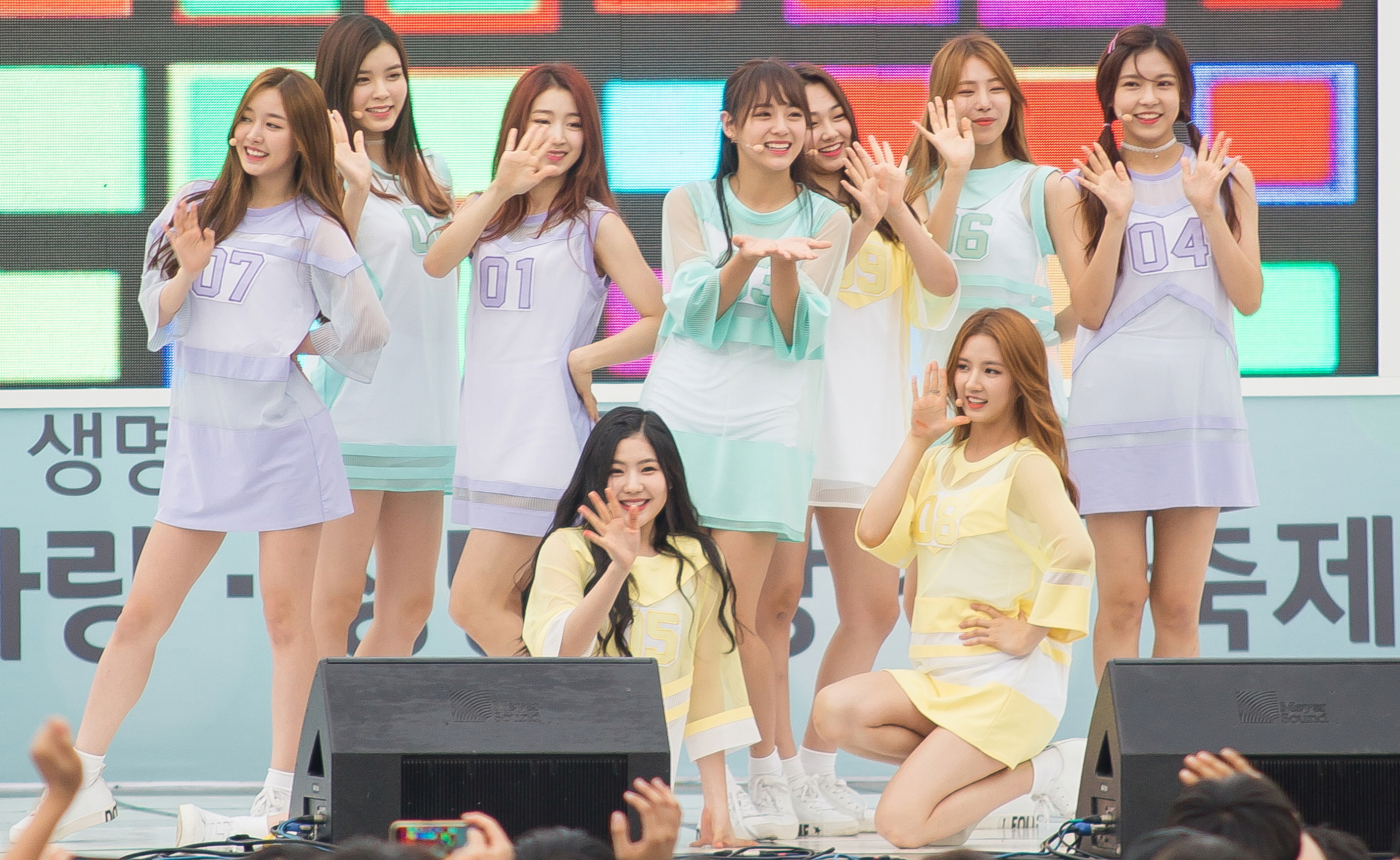 Gugudan on 04 Sep, 2016